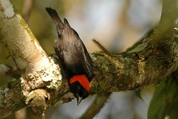 Uganda Red-headed Malimbe (Malimbus rubricollis)